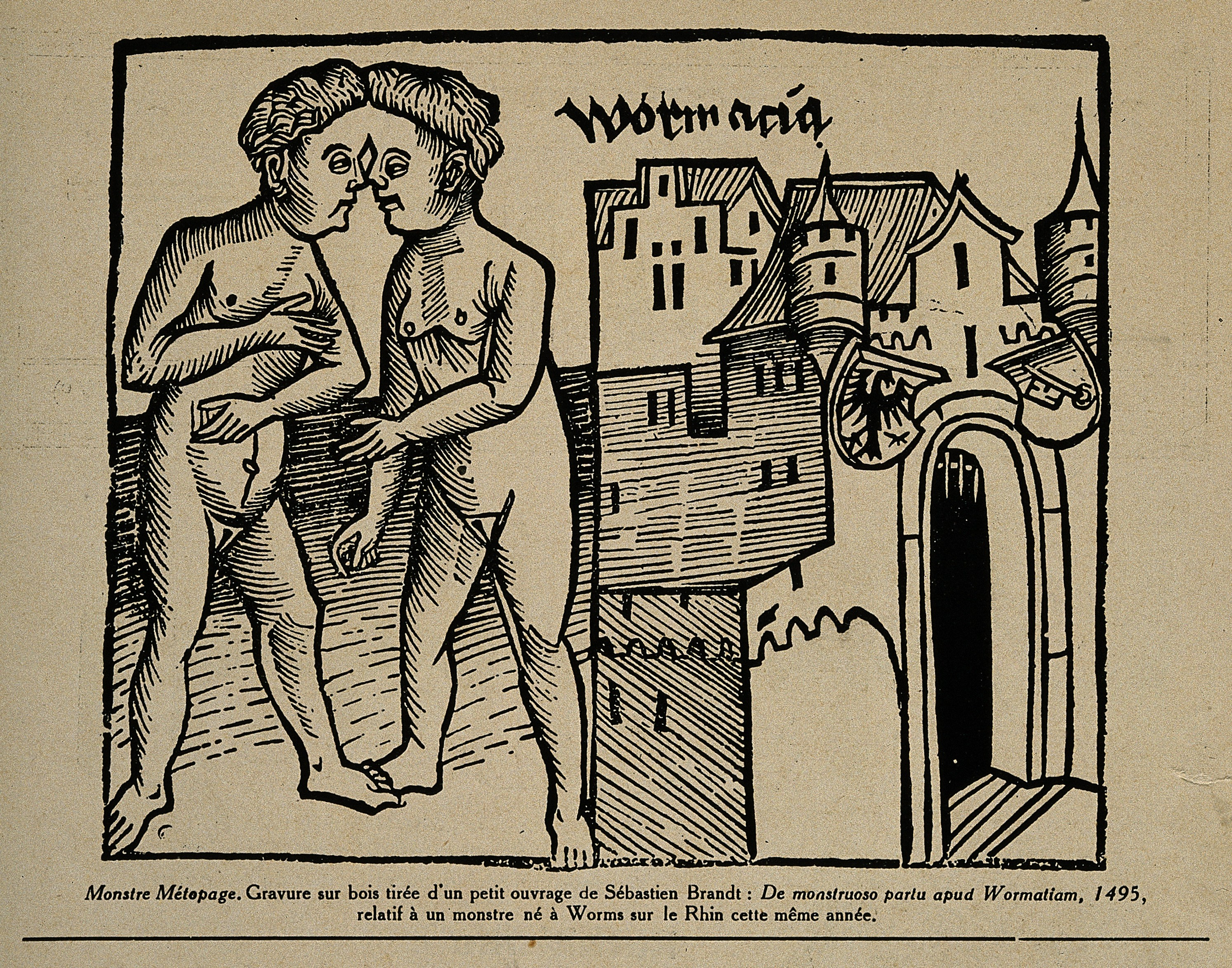 Conjoint twins, joined at the head, born at Worms in 1495. Reproduction of woodcut published in 1495. Iconographic Collections Keywords: Sebastian Brant; ic; WORMS